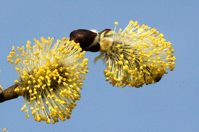 Salix caprea from Commanster, Belgian High Ardennes .